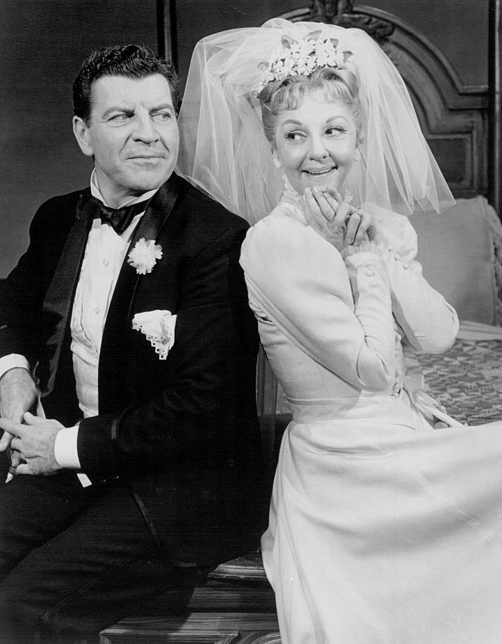 Photo of Robert Preston and Mary Martin from the Broadway play I Do! I Do!.